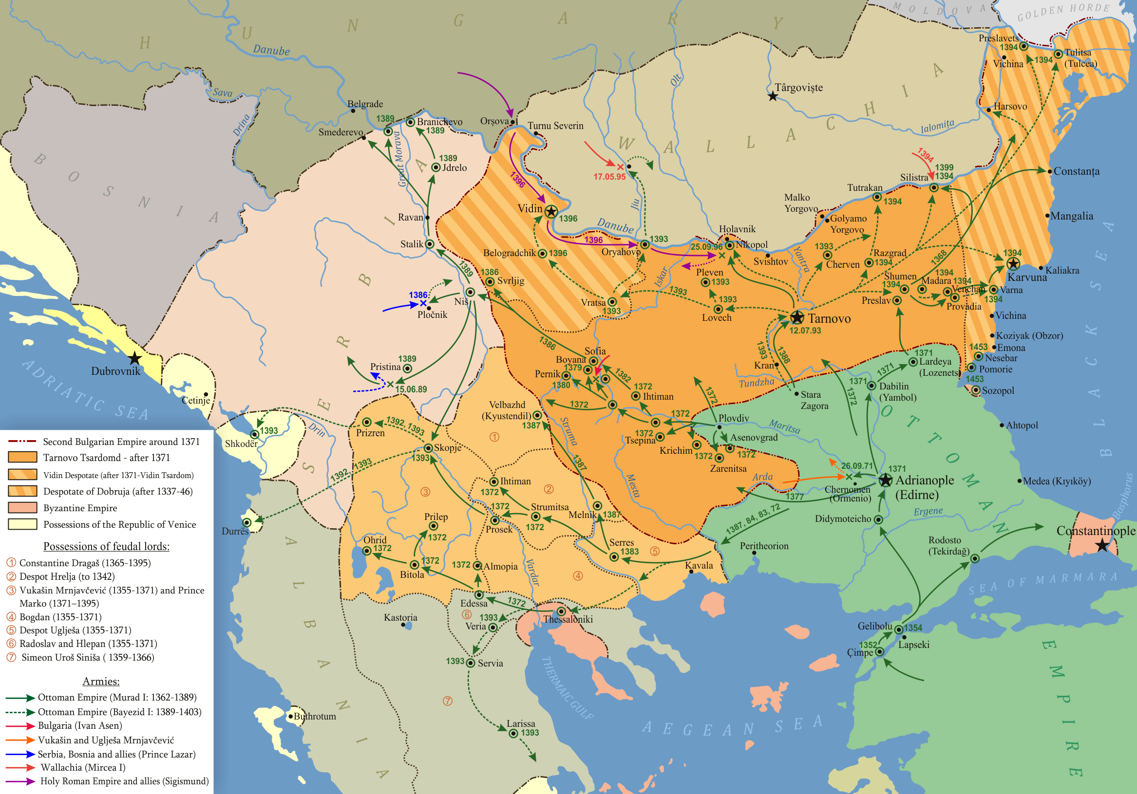 Feudal fragmentation of the Second Bulgarian Empire and fall under Ottoman rule. Based on: map "Феодална разпокъсаност на България и падането и под турска власт (1280-1396)" in atlas "Атлас по история на България за средните училища", "Картография", София, 1990 г., map № 8. "Феодално раздробление в земите, неселени с българи през последните три десетилетия на XIV в." in the book "Политическа география на средновековната българска държава. II част (1186—1396)", Петър Коледаров, Издателство на Българска Академия на Науките, София, 1989 г.[1] and [2]